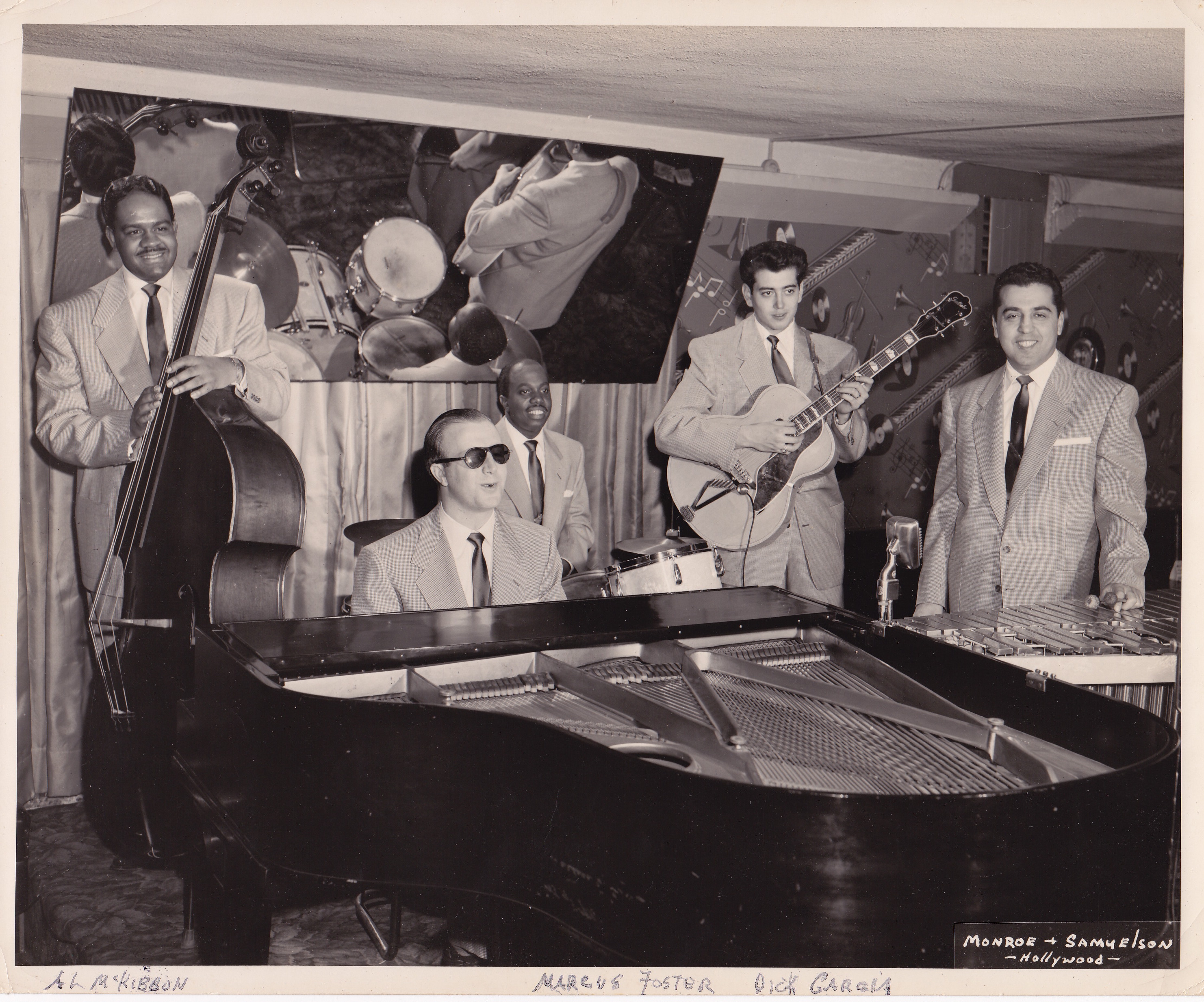 Roland once said, "You had to be perfect to play with Shearing."